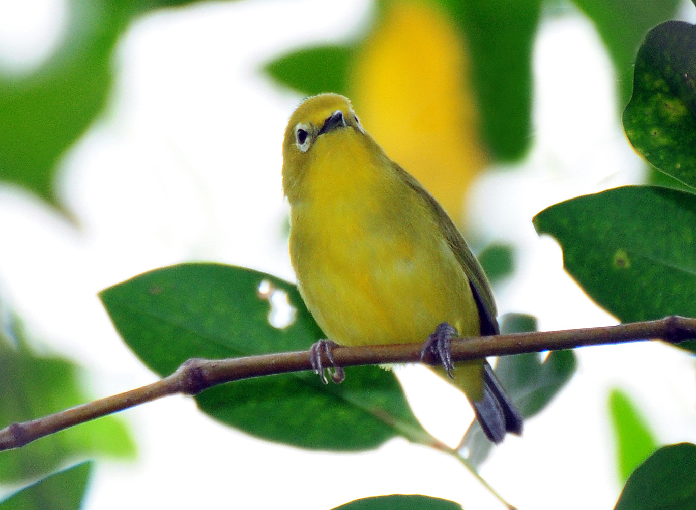 Javan White-eye (Zosterops flavus) perching on a branch of mangrove tree, Surabaya, East Java, Indonesia. I saw at least 20 of them stormed the branches at the time, a very unusual sight since they are normally very hard to find.